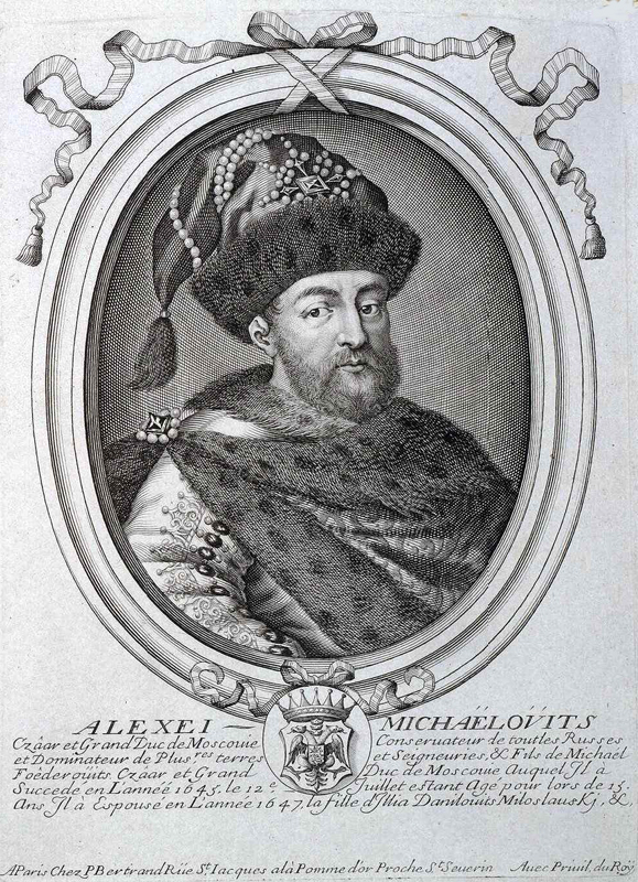 French Engraving of Tsar Alexis